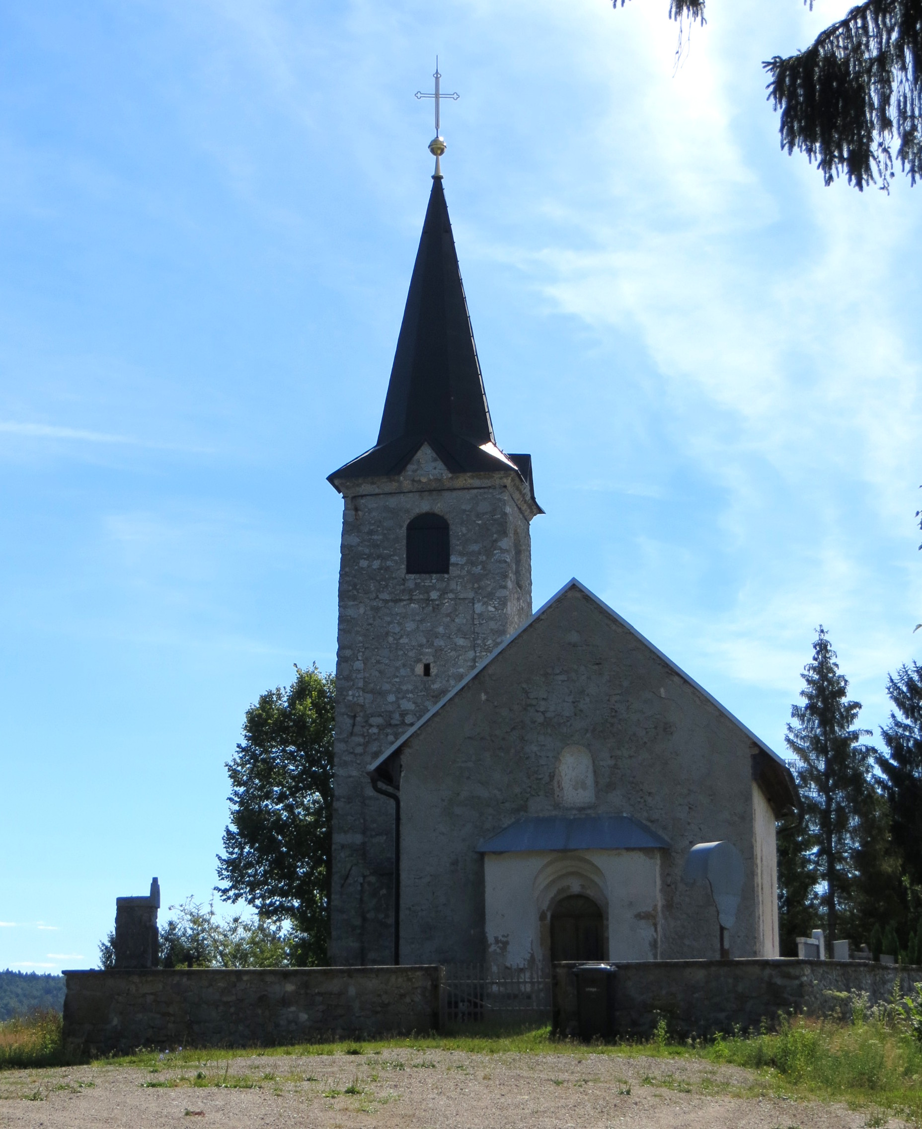 Saint Leonard's Church in Krvava Peč, Municipality of Velike Lašče, Slovenia